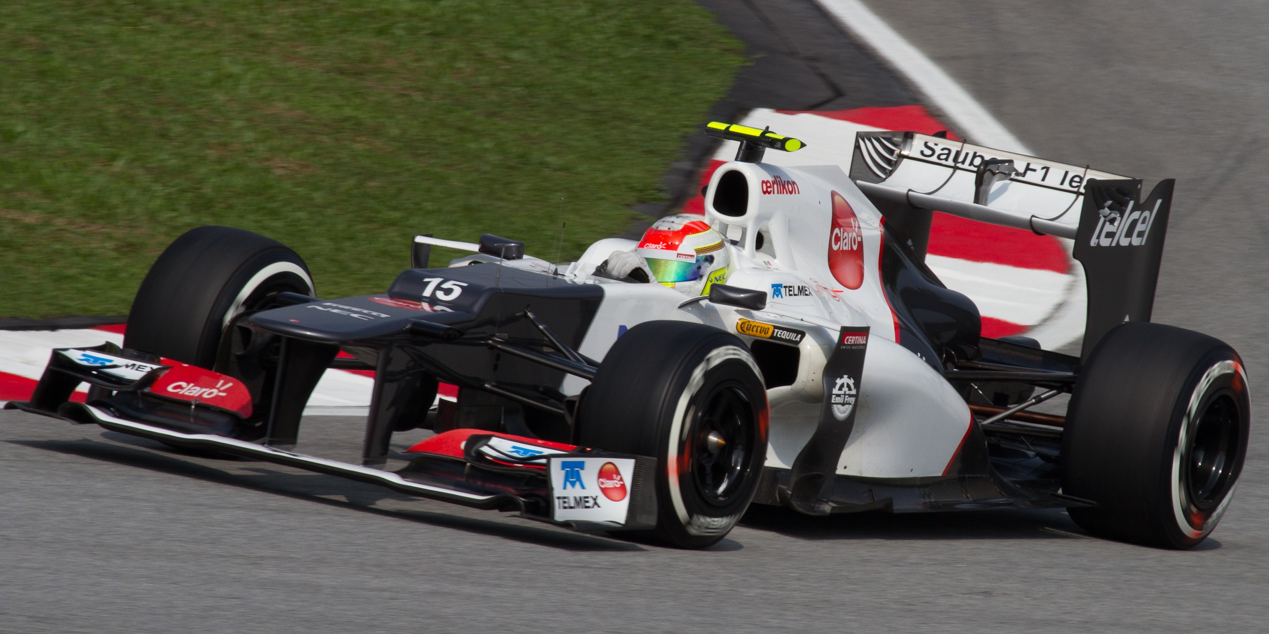 Formula One 2012 Rd.2 Malaysian GP: Sergio Pérez (Sauber) during the qualify session on Saturday.